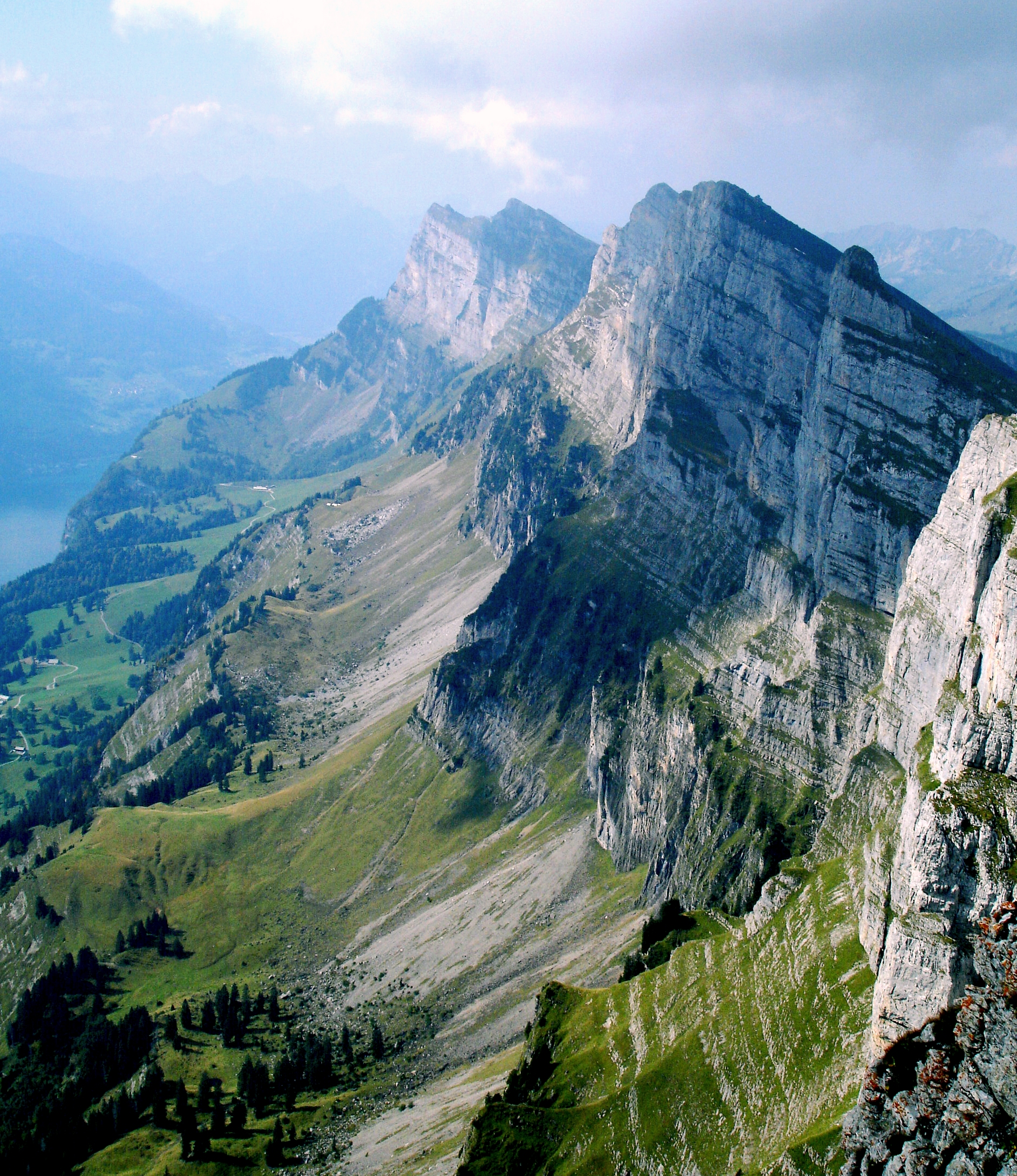 Churfirsten, Switzerland